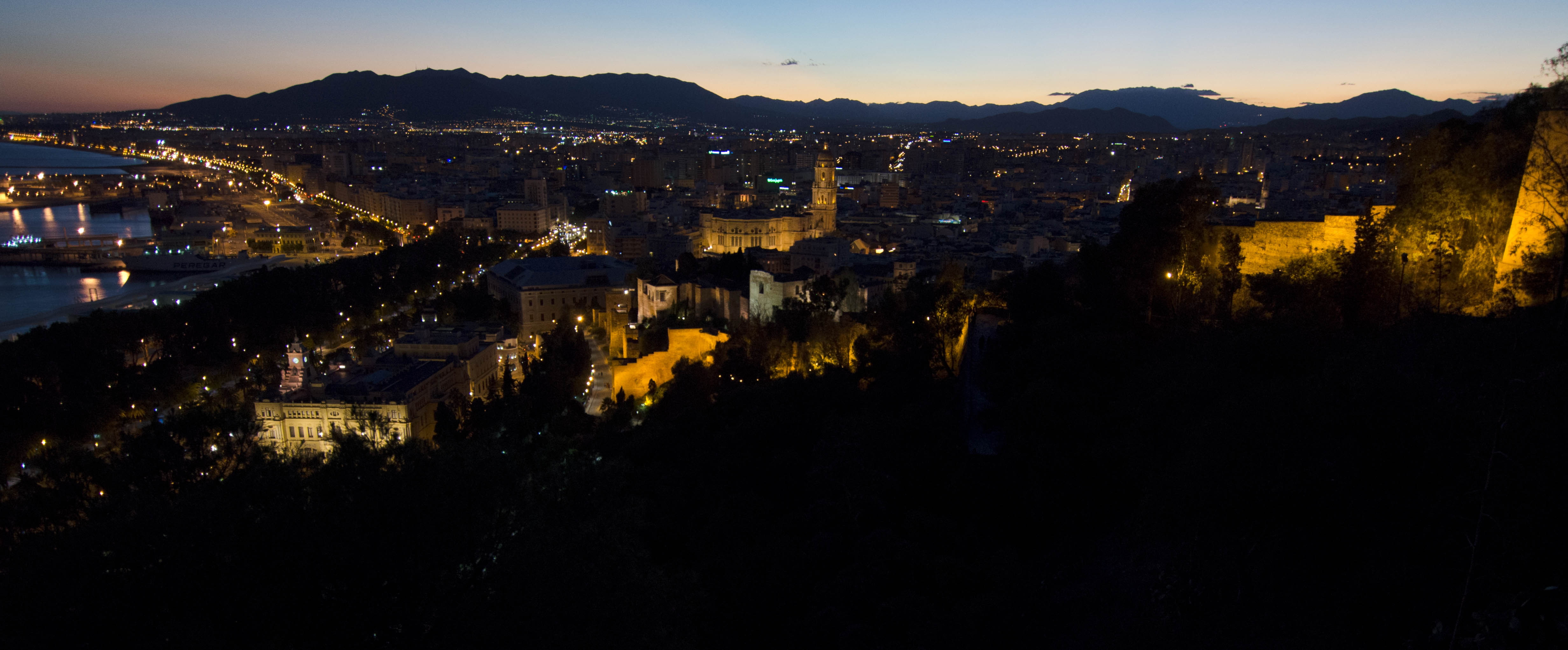 Málaga, Spain.